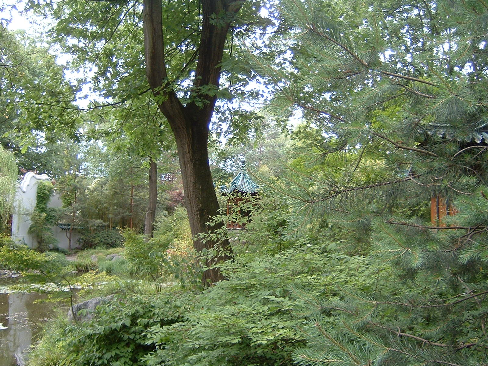 Chinesese Garden in the Duisburg Zoo.